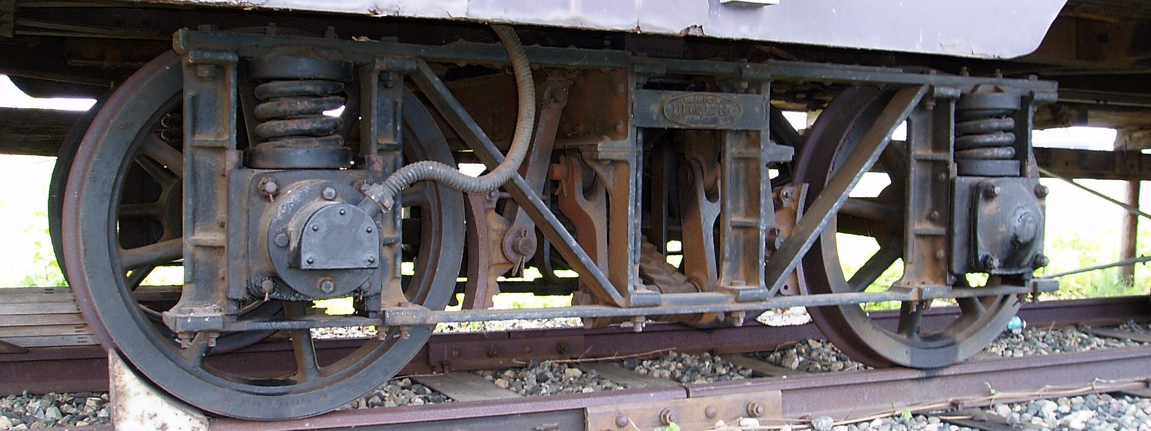 Bogie Truck TR26 of Kambara Railway type Kuha10. 現在も五泉市内で保管されているクハ10（元国鉄キハ41000形）のTR26台車 2007.05.07 Photo by Cassiopeia_sweet.